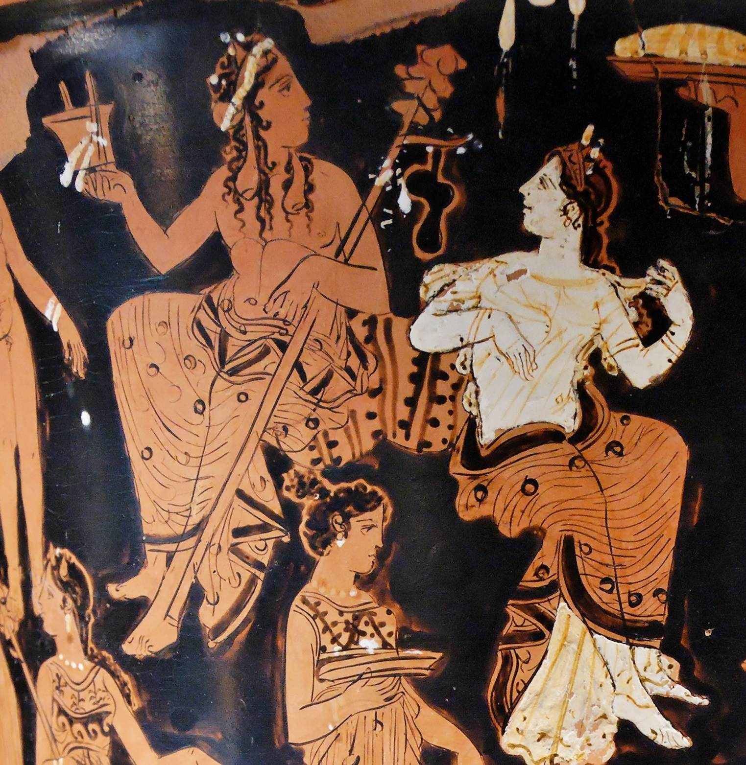 Bu tasvir Luvrdagi qadimgi tarix bo'linmasida saqlanayotgan ko'za ustida joylashgan